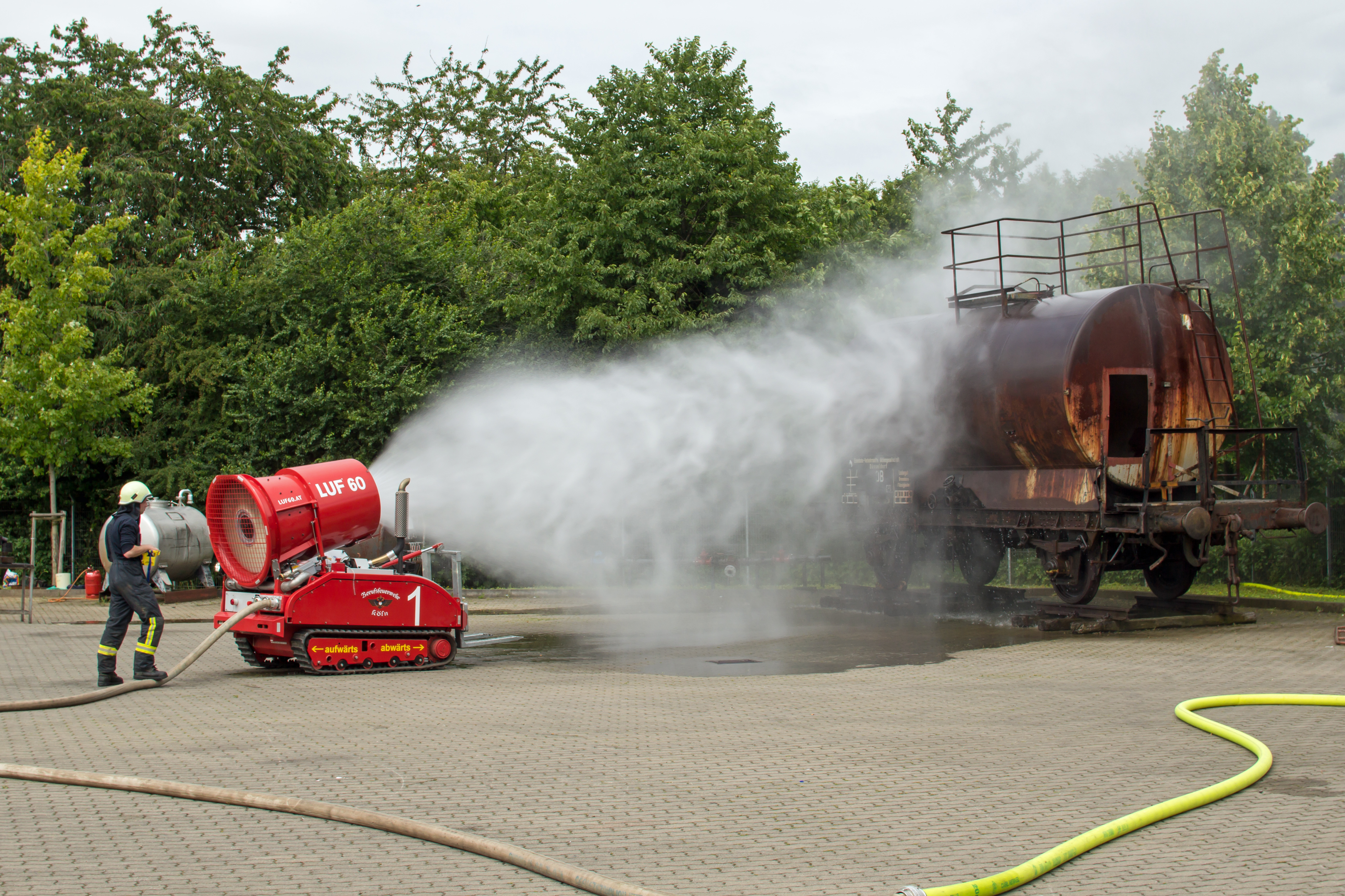 Firefighting Support Vehicle type LUF 60